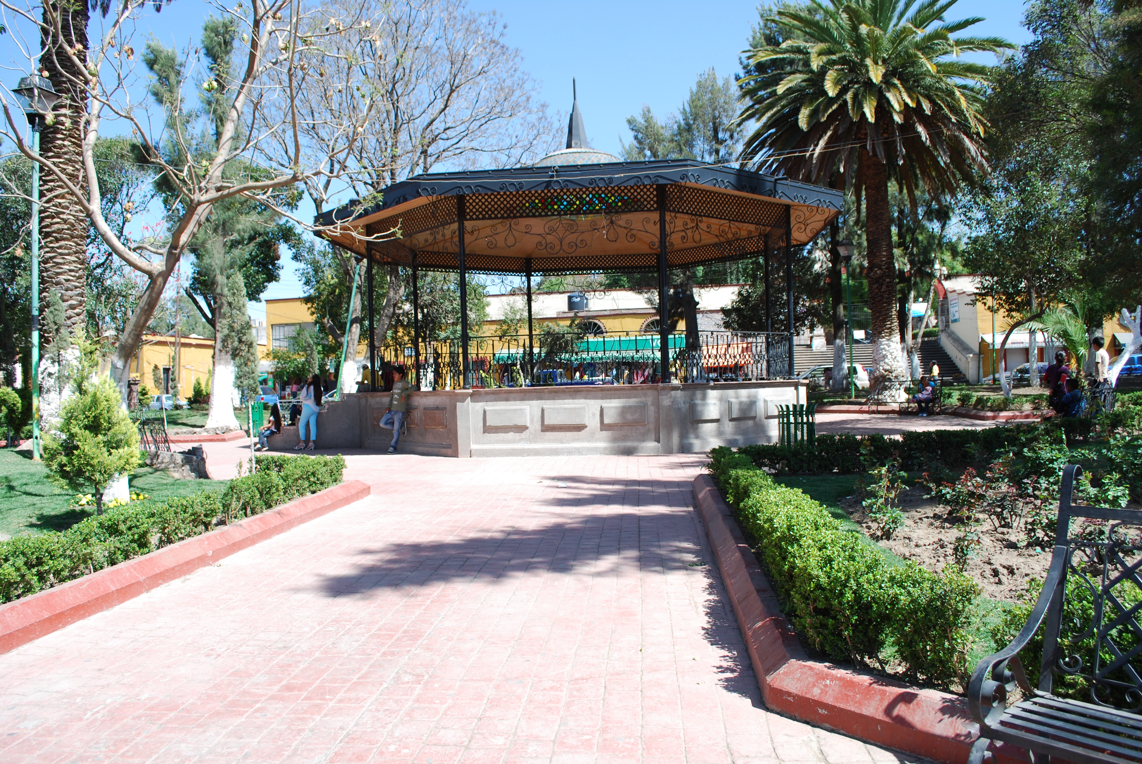 Kiosk of the main plaza of Otumba, Mexico State